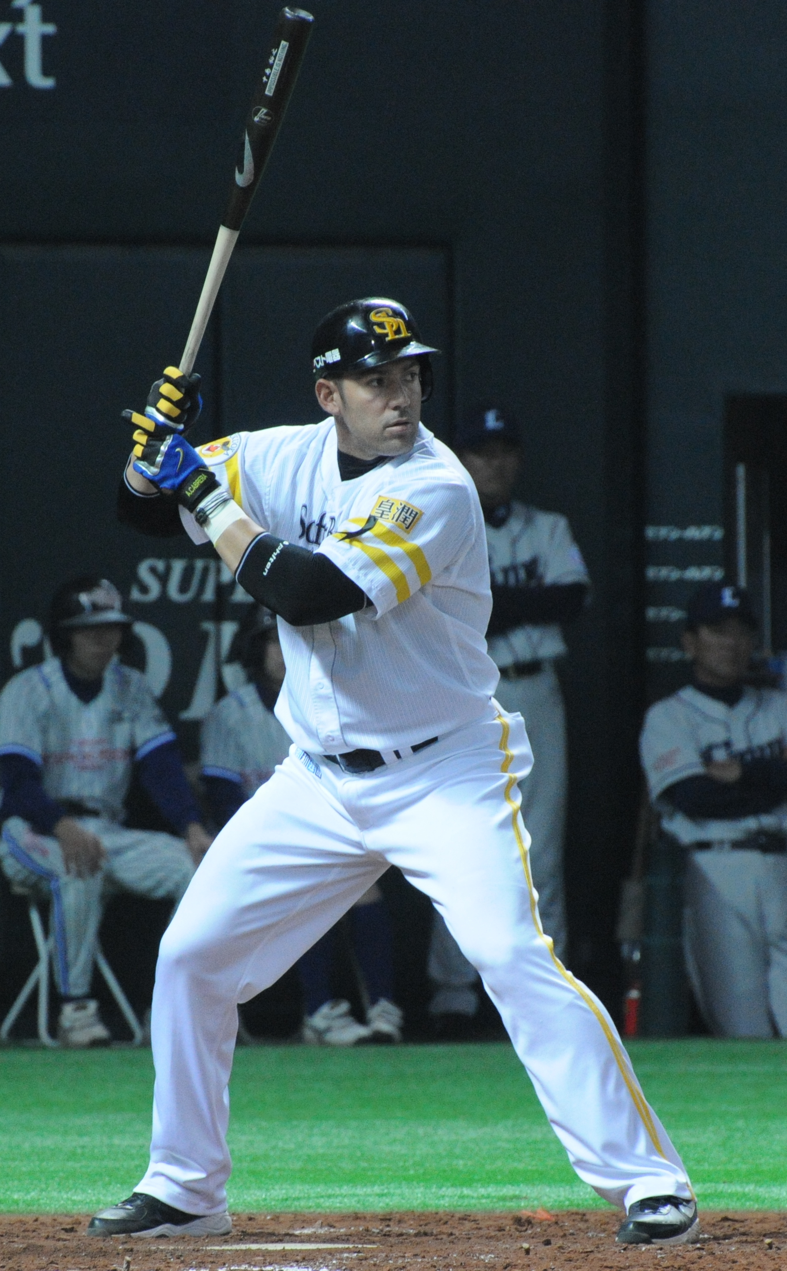 Alex Cabrera, infielder of the Fukuoka SoftBank Hawks, at Fukuoka Dome.